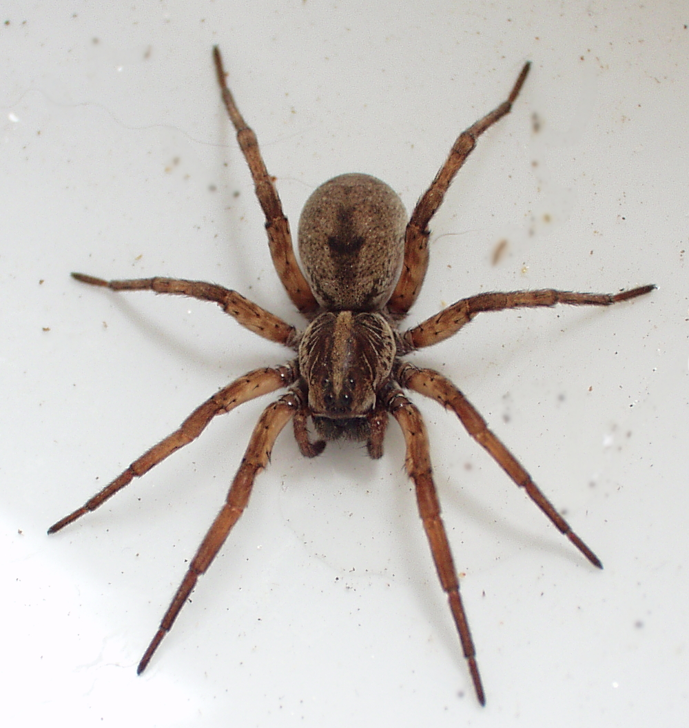 Female wolf spider of the species Hogna lenta. Body length 16 mm. Skitterish photo subject. She was easily startled and made threat displays. She was located at 36° N 80° W.